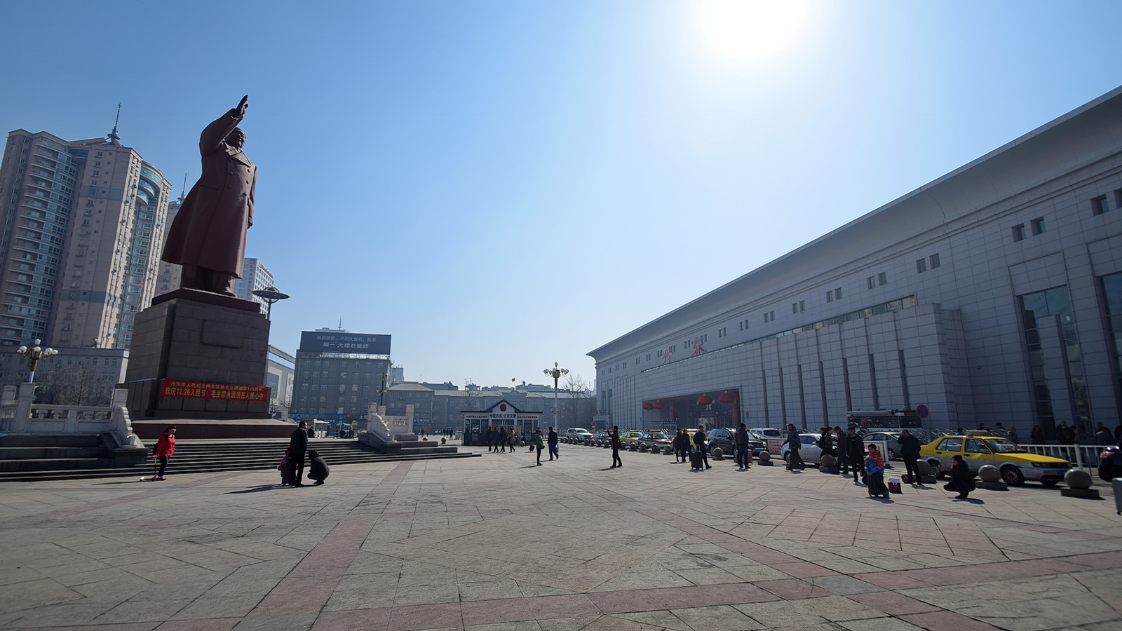 Station Square & Mao Zedong Statue, Dandong Railway Station